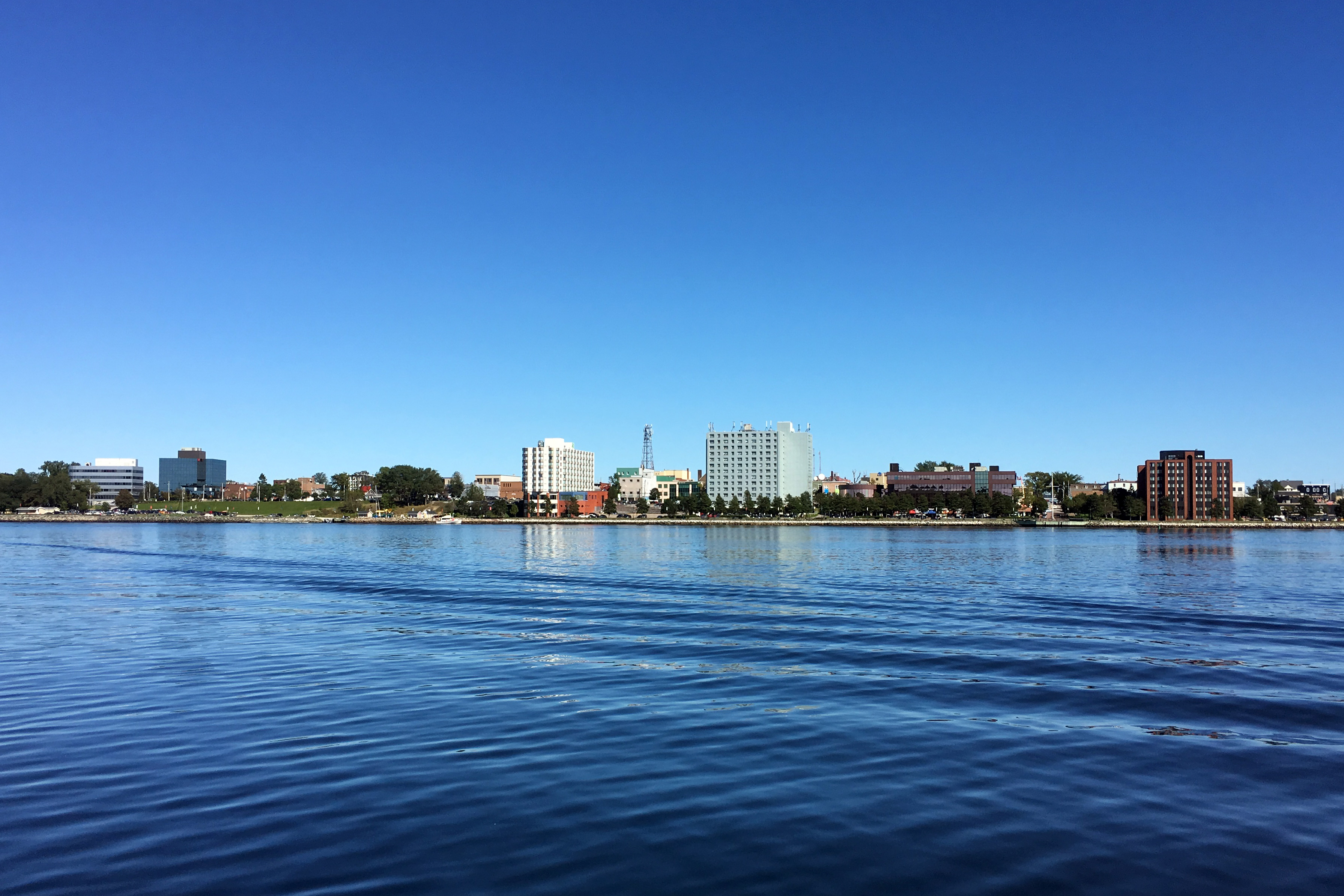 Picture of Sydney, NS waterfront from harbour.